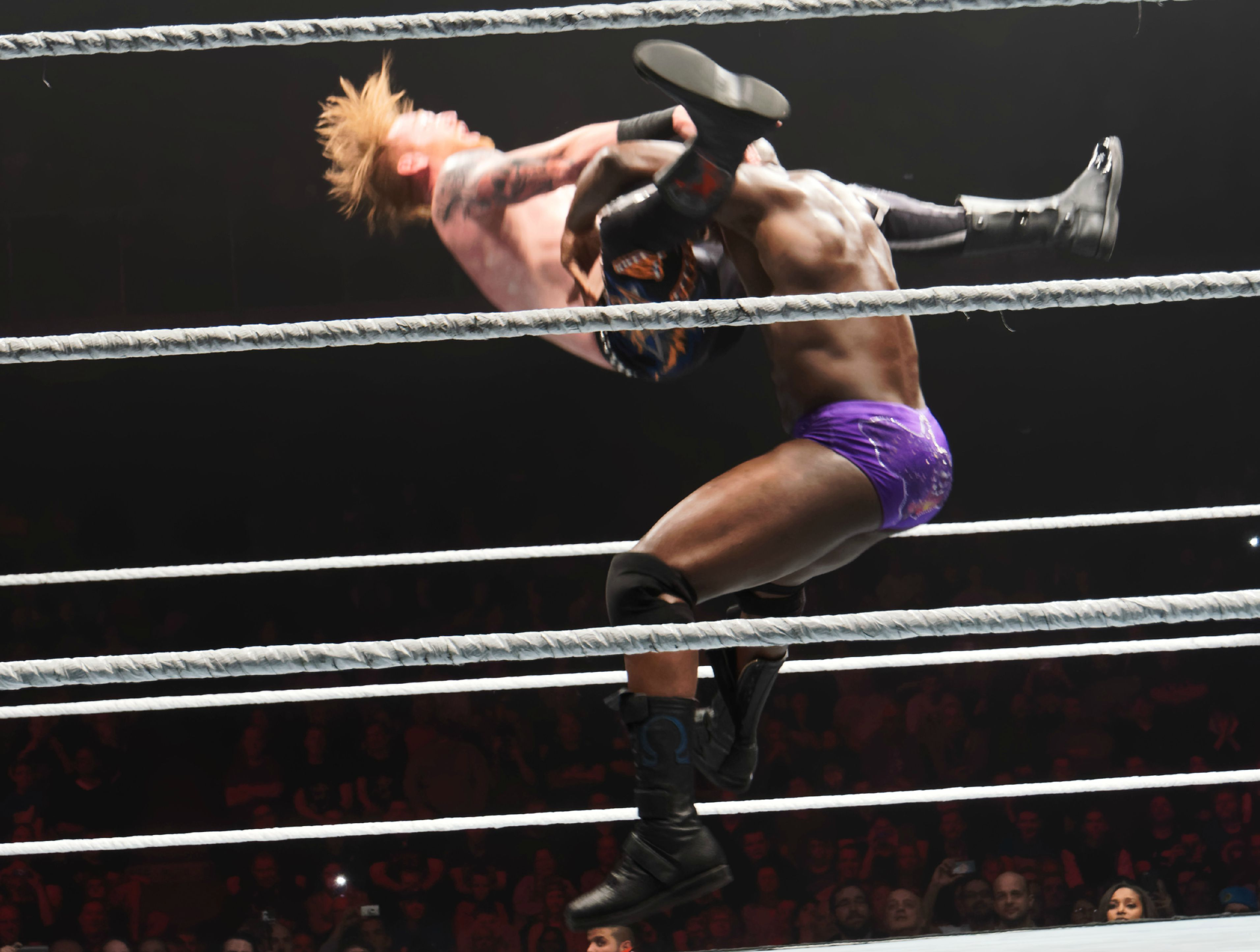 Titus O'Neil Applying a Spinebuster on Heath Slater